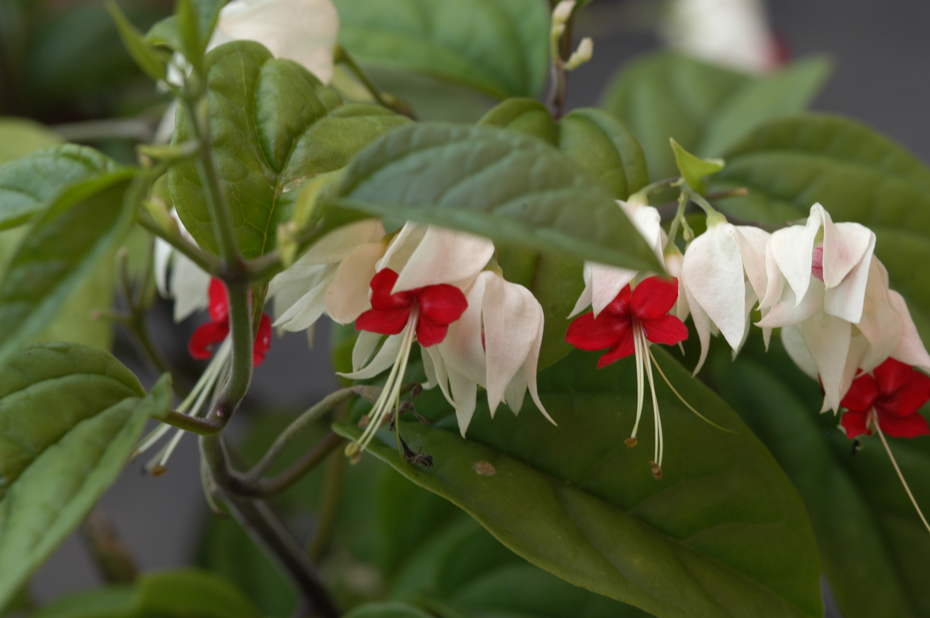 Clerodendrum thomsoniae